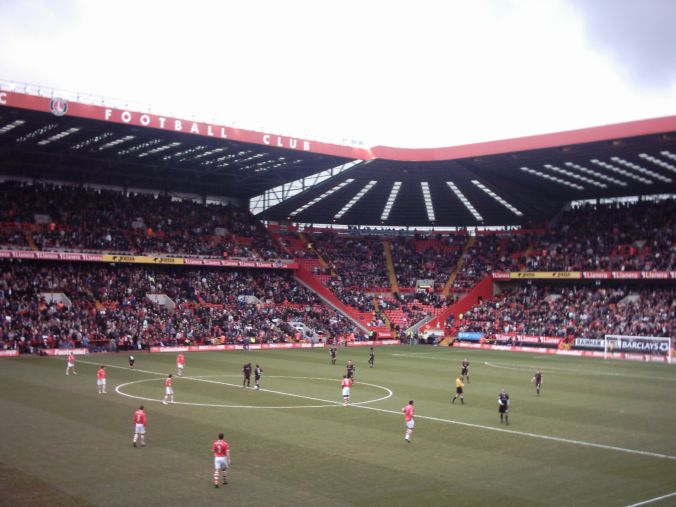 The Valley Stadium, Charlton, London